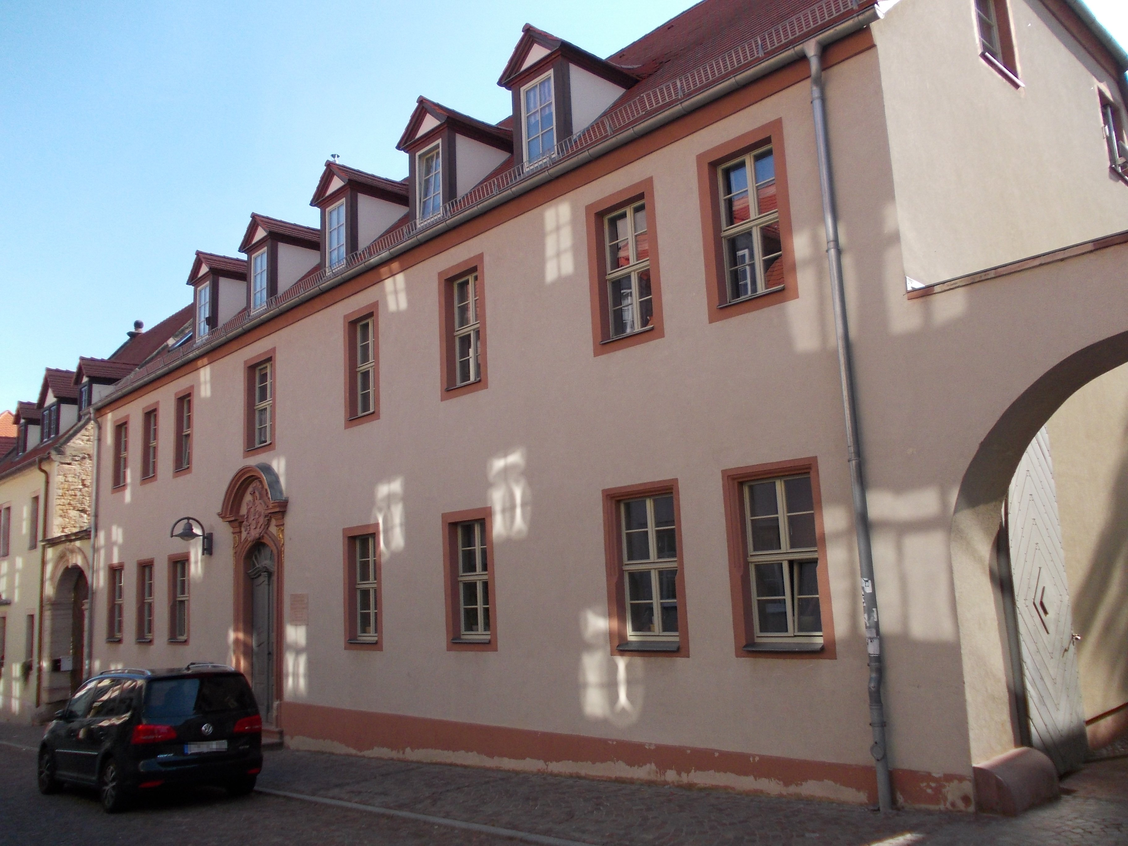 House of the Schomburgk family in Querfurt (district of Saalekreis, Saxony-Anhalt)